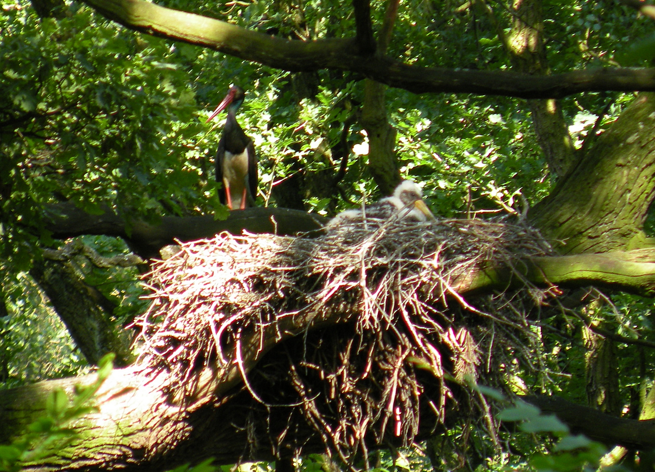 Black stork with his young in nest Czarny bocian z młodym w gnieździe